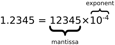 A diagram/example showing the representation of a floating point number using a mantissa (aka significand) and an exponent.